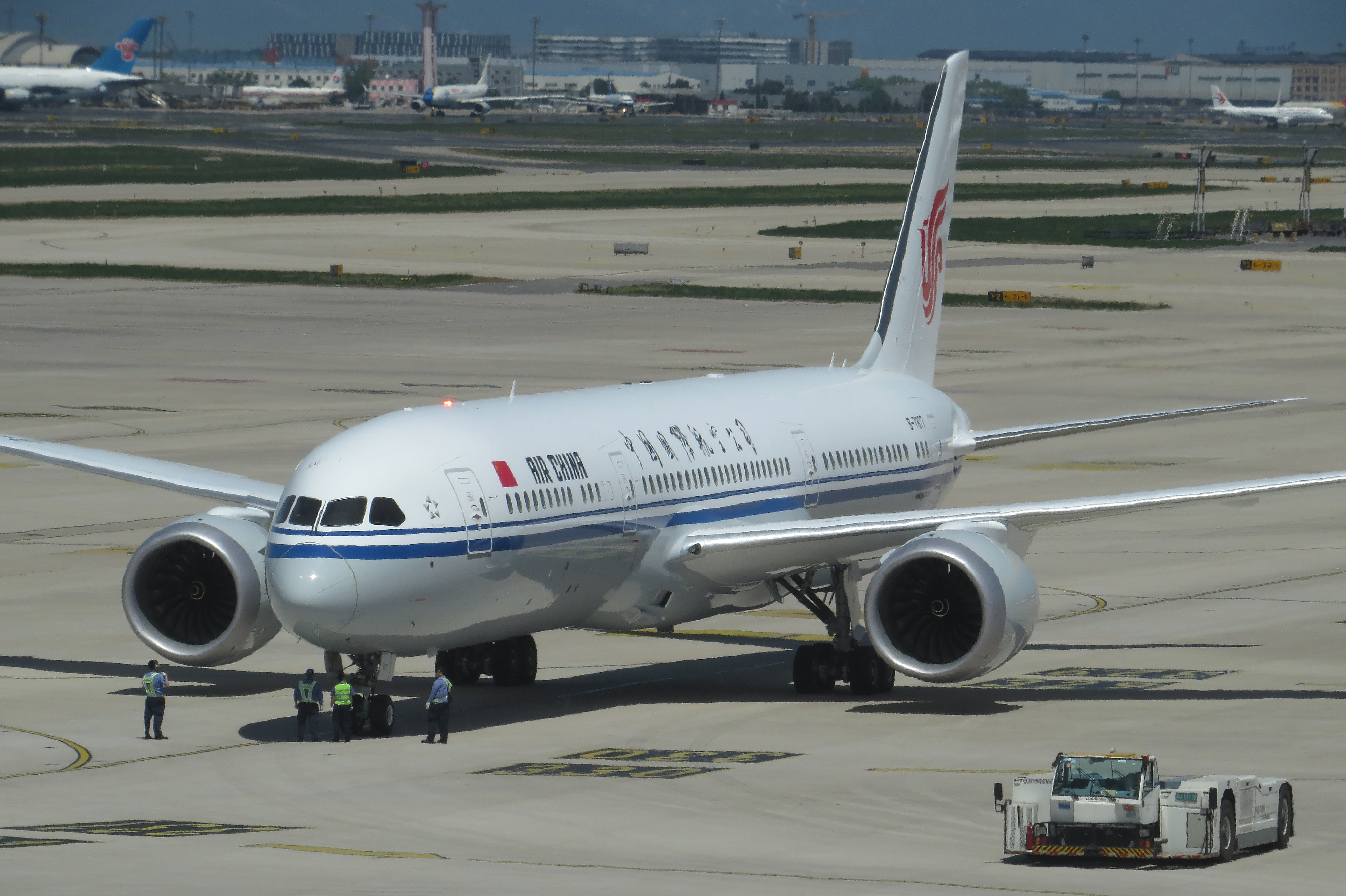 Air China 4102 to Chengdu. This is B-7877's inaugural commercial flight.